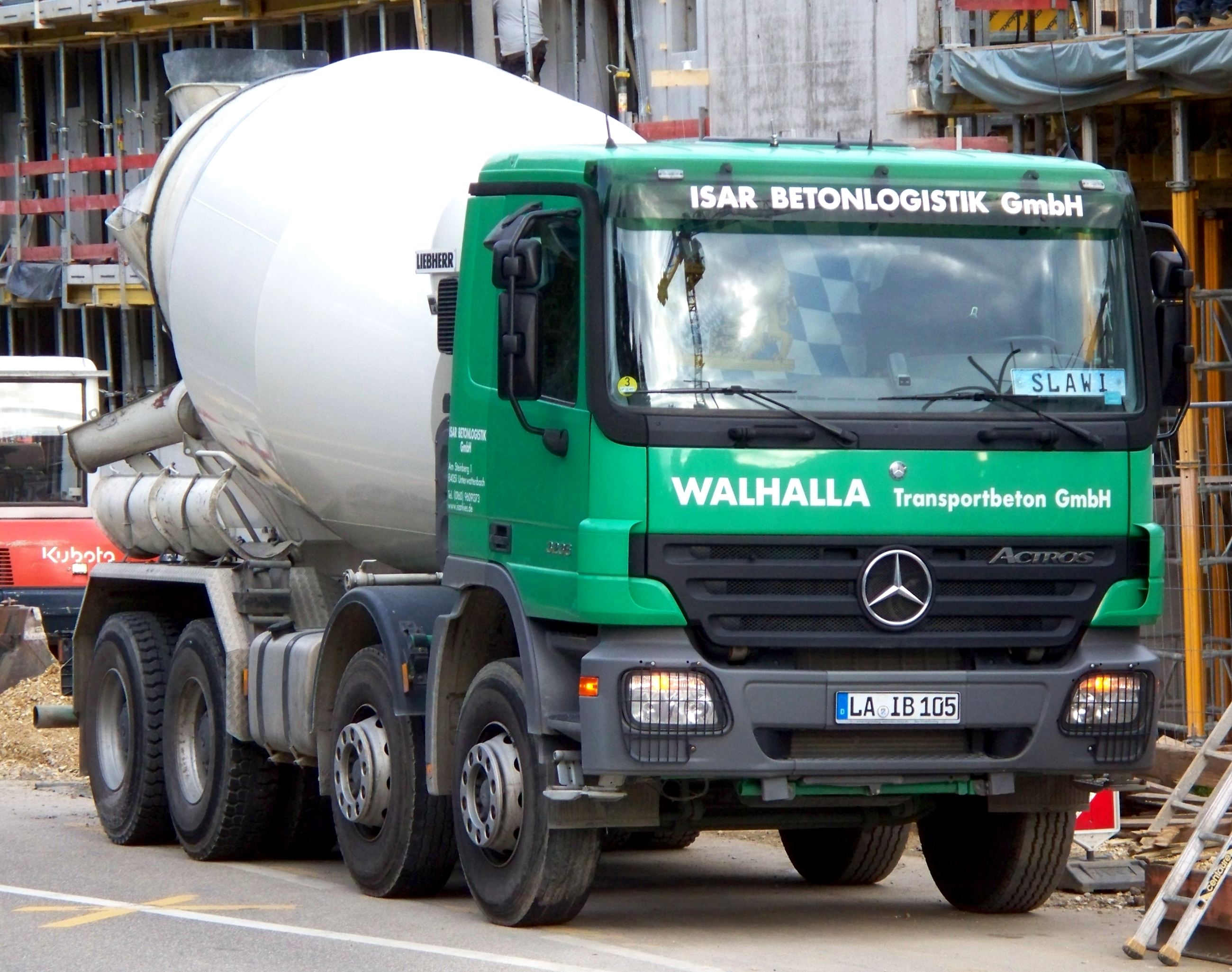 Mercedes-Benz Actros cement mixer truck in Regensburg, Germany.